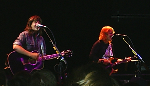 Indigo Girls performing at the club Park West in Chicago, IL on September 18, 2005. Left to right: Amy Ray, Emily Saliers.